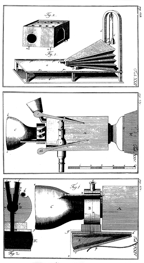 A speech synthesizer, drawings by Wolfgang von Kempelen, 1791